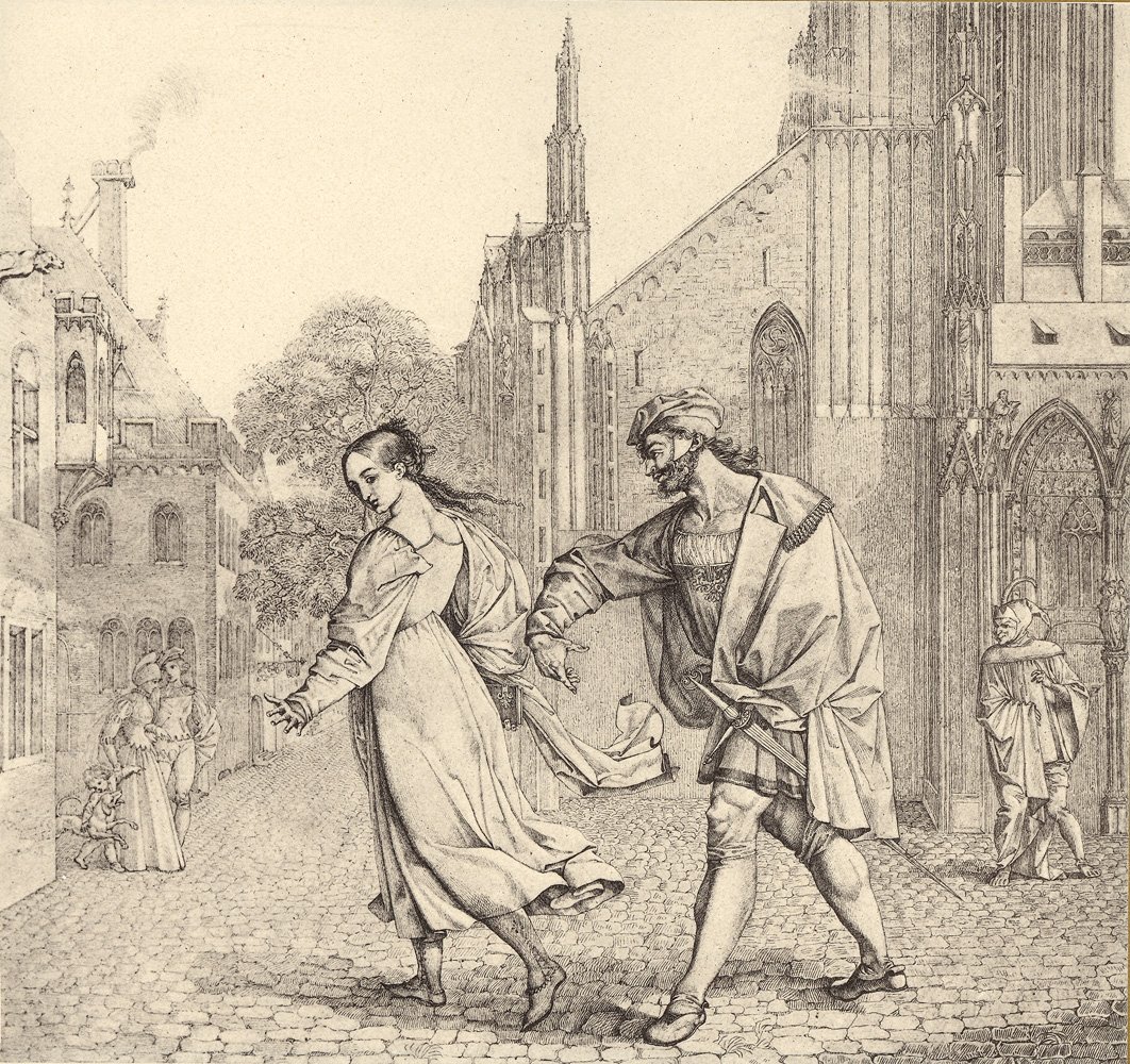 Faust offering his arm to Gretchen, illustration by Peter von Cornelius after “Faust” by Goethe